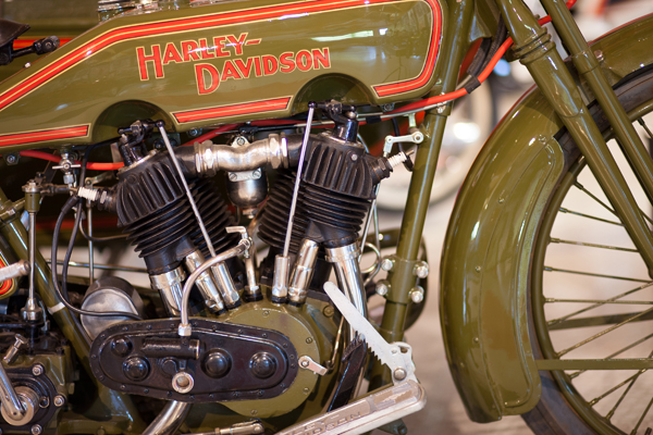 Museu de la moto de Bassella; Bassella, Catalunya, Lleida, Spain; Harley-Davidson, J, 1000cc, 1923; Ref: PM_091910_E_Bassella; Moto; Photographer: Paul M.R. Maeyaert; © Paul M.R. Maeyaert; ; Cultural heritage; Europeana; Europe/Spain/Bassella